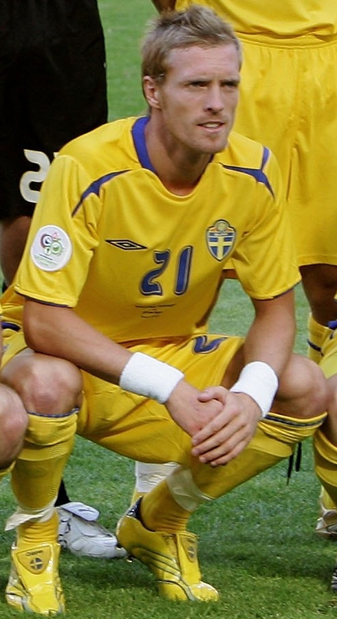 Christian Wilhelmsson (Swedish national football team) before the FIFA World Cup match against Trinidad and Tobago on June 10, 2006